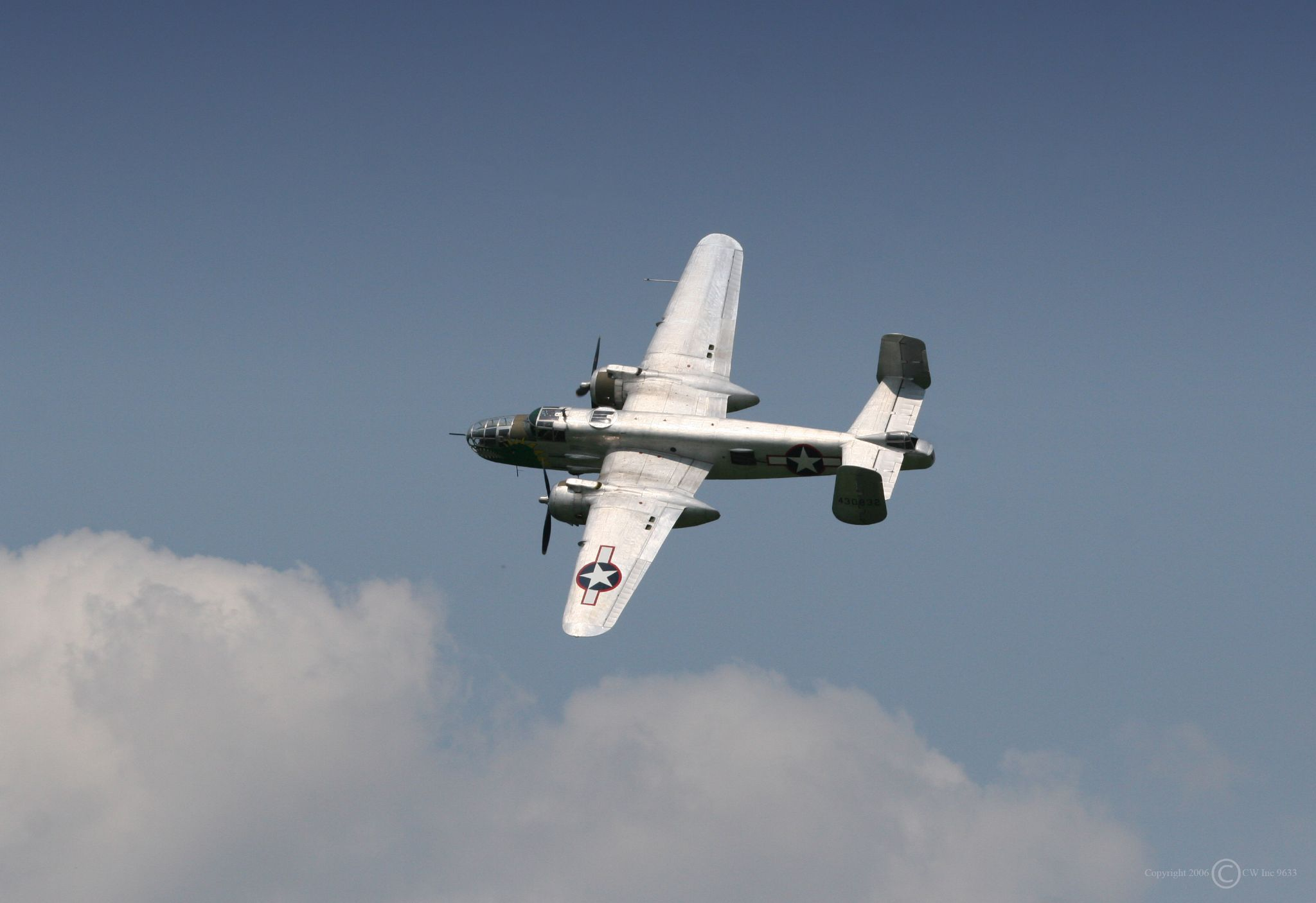 A B-25 Mitchell, at the Geneseo Airshow